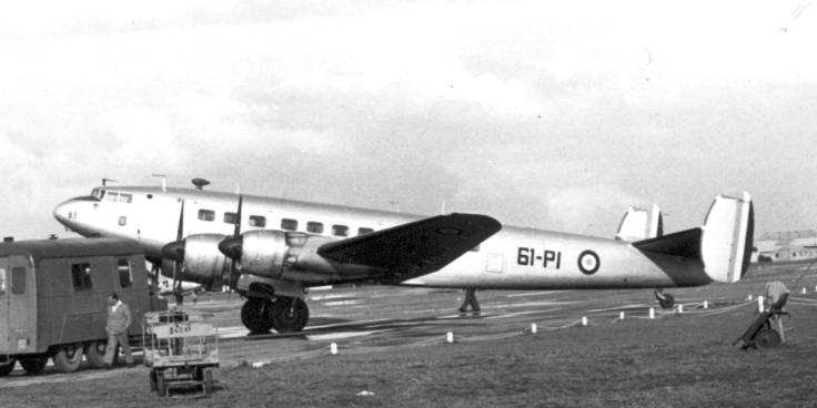 SNCASE/SE-161 Languedoc No.92 of 61 Escadre French Air Force visiting Blackbushe Airport during the Farnborough Airshow.